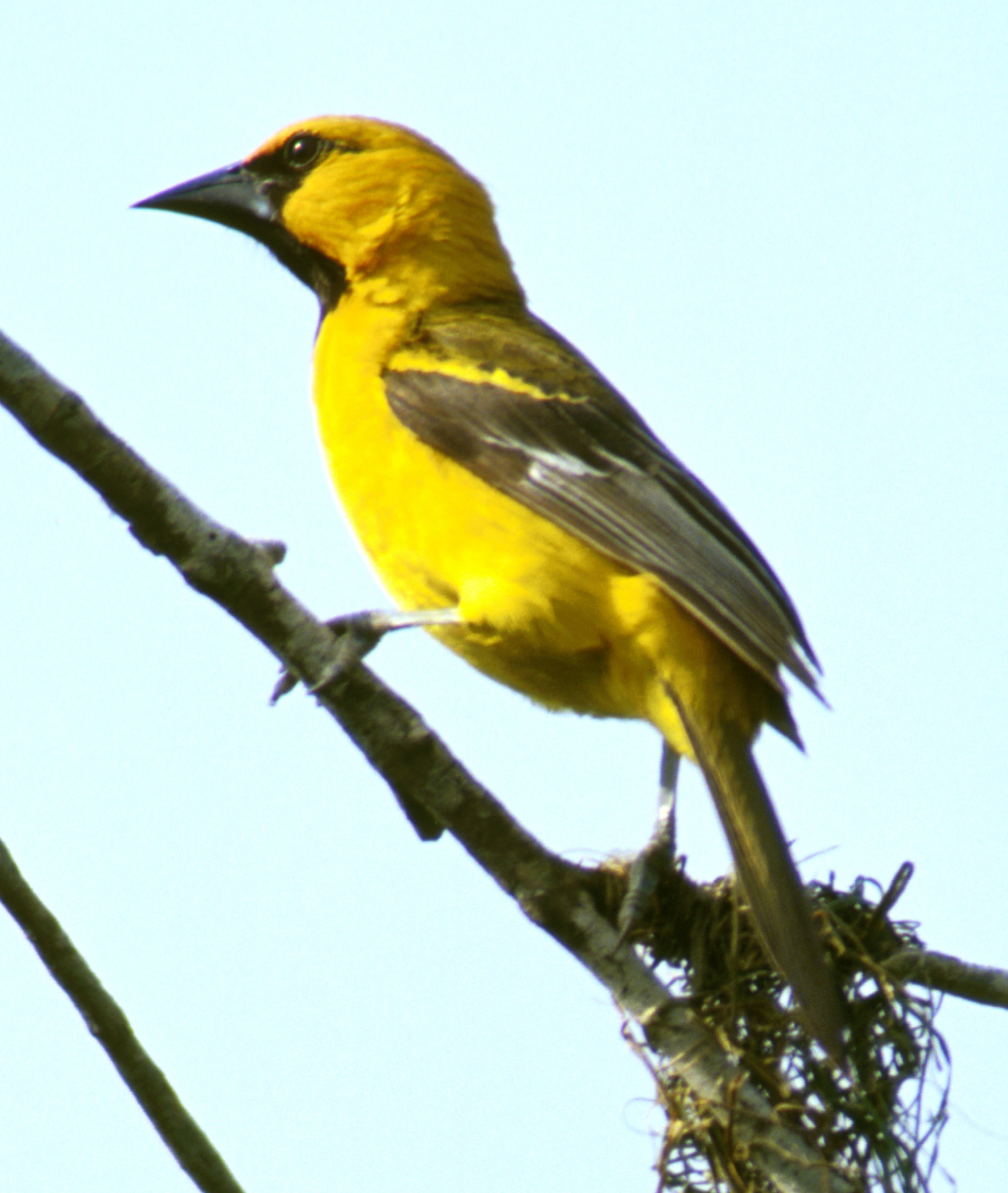 Altamira Oriole